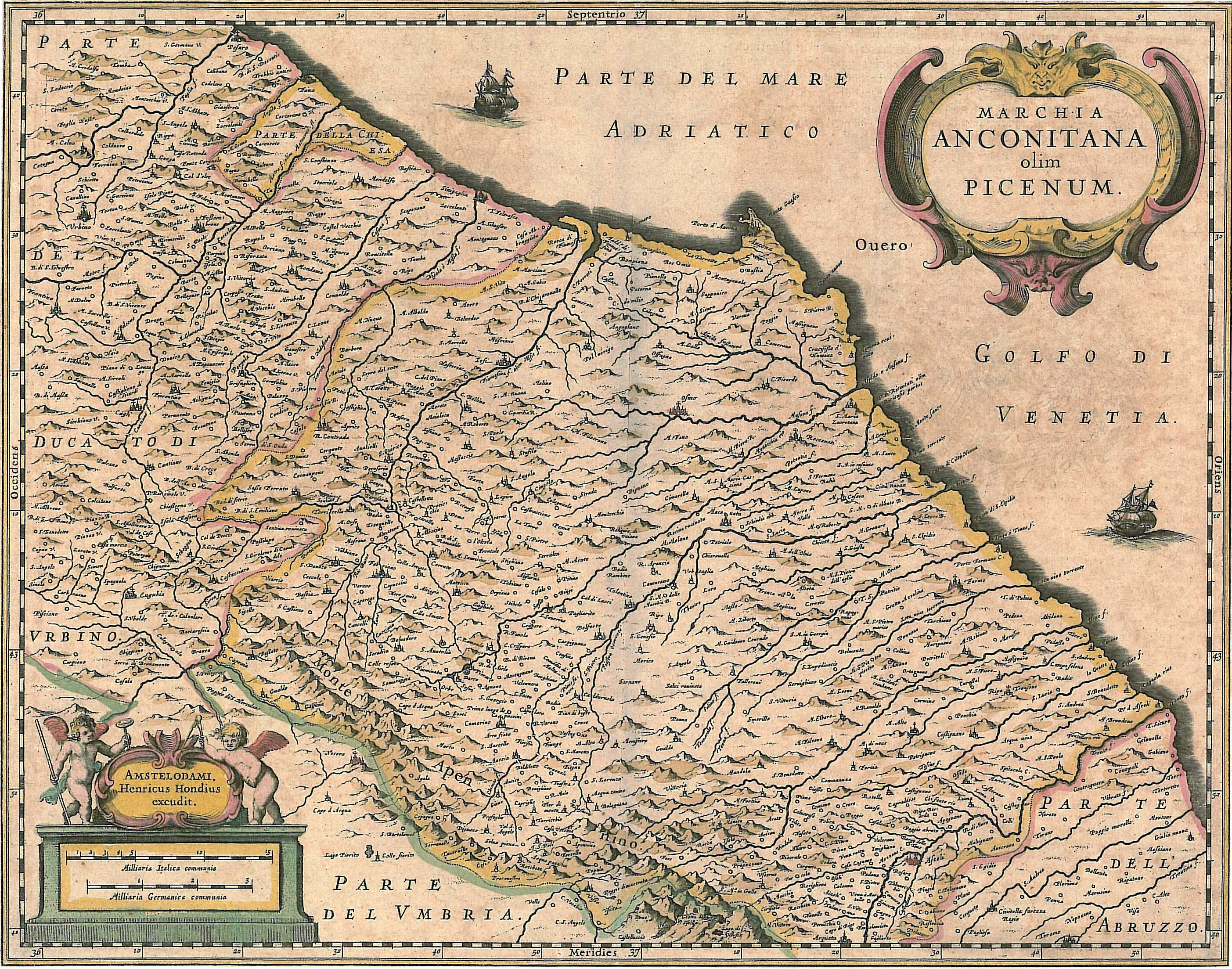 Marchia Anconitana olim Picenum, 1635 - Henricus Hondius, Jan Jansson edita in Theatrum Italiae, Amsterdam, 1635 (mm 375x480 Cartoteca storica delle Marche)